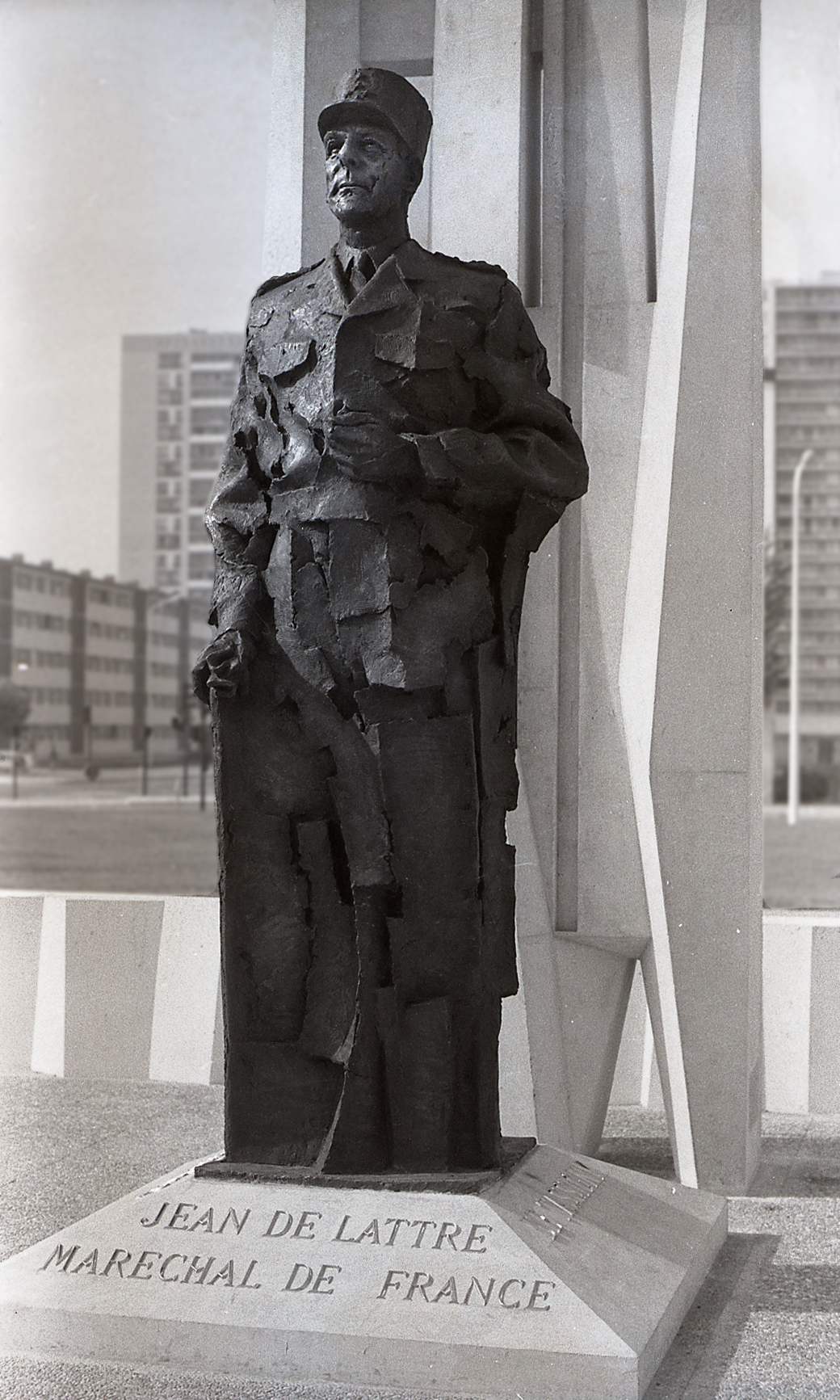 This monument has been created By Jacques Le Nantec in 1970.